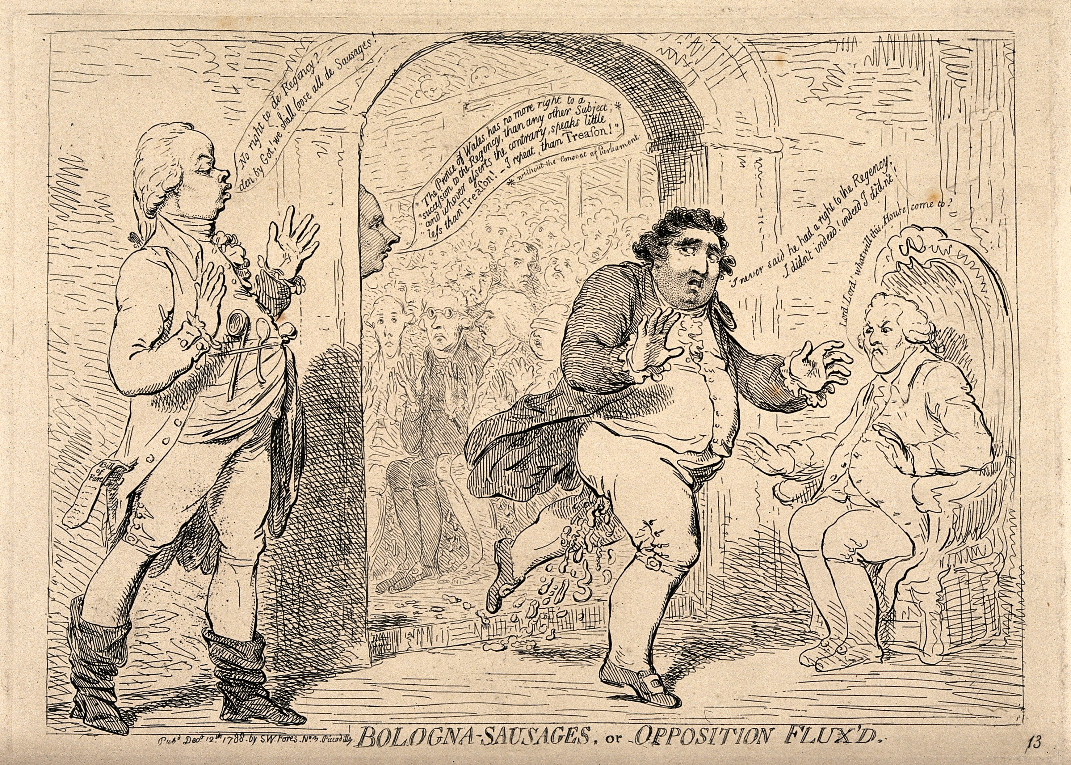 Fox running out of the House of Commons in the middle of a debate with Pitt about the Regency crisis: he is excreting as he runs, which refers to a bout of dysentery he caught on route from Bologna. Etching by J. Gillray, 1788. Iconographic Collections Keywords: Edmund Burke; William Pitt; Frederick North; Charles James Fox; James Gillray; sheridan, richard brinsley, 17; north, frederick, earl of guil; burke, edmund, 1729-1797; George IV; regency - great britain; cornwall, charles wolfran, 173; george iv,, 1762-1830; Charles Wolfran Cornwall; fox, charles james, 1749-1806; weltje, louis, fl. 1788; Louis Weltje; Richard Brinsley Sheridan